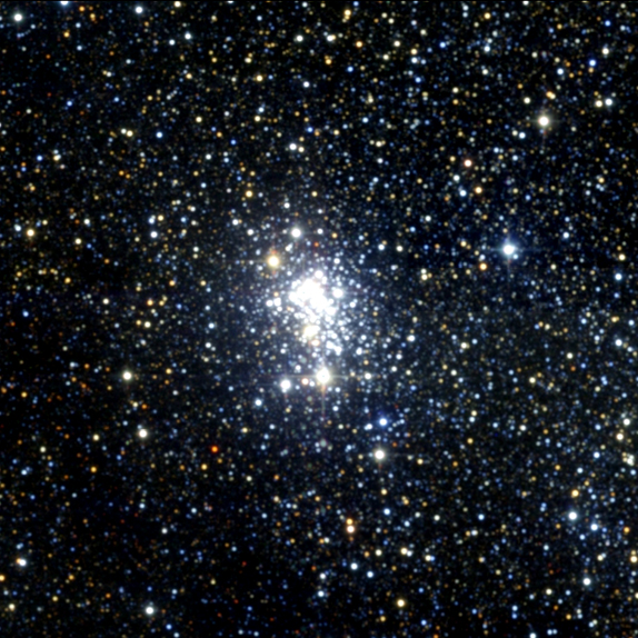 This image shows the star cluster "Westerlund 1" in infrared light as observed by the 2 Micron All-Sky Survey (2MASS). The field of view is approximately twice as large the Chandra image. Scale: Image is 13 arcmin per side